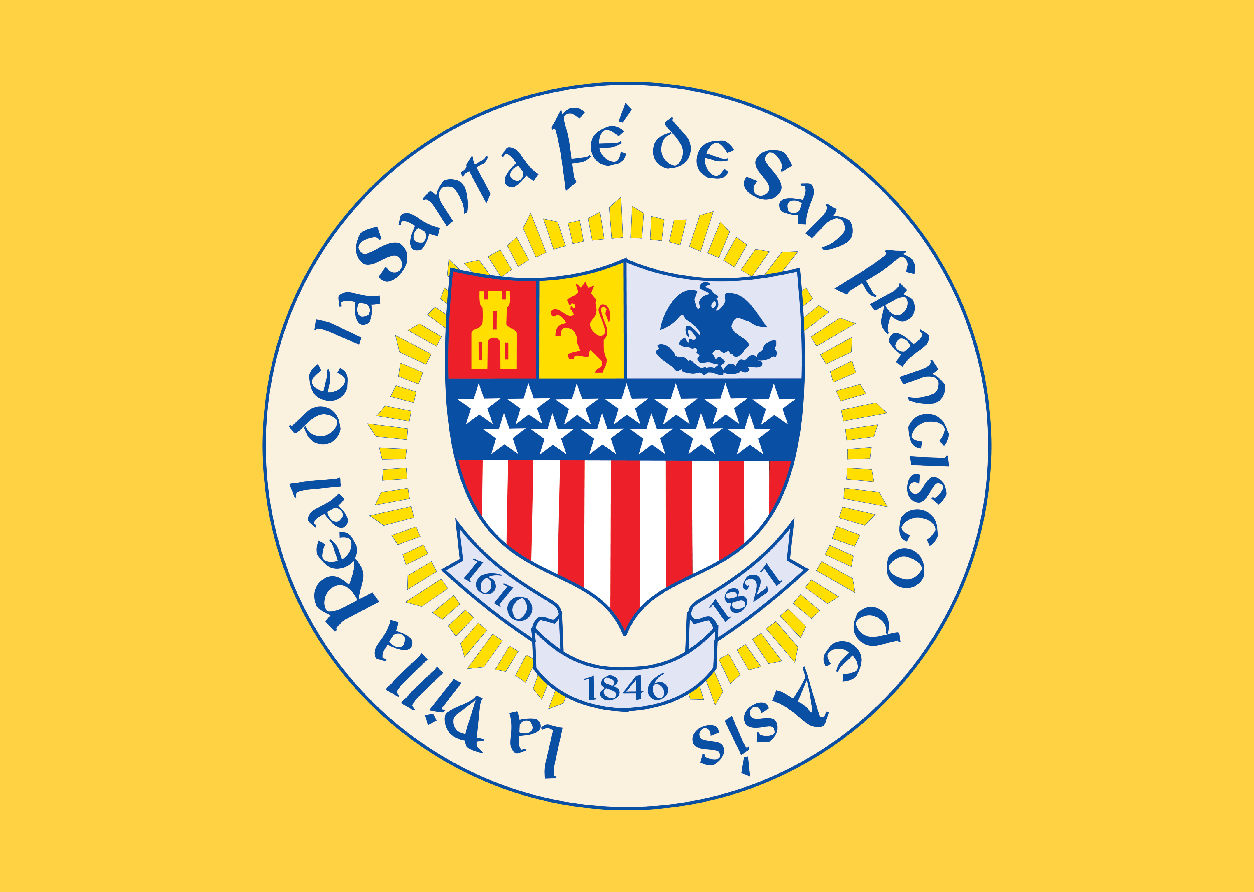 Flag of Santa Fe, New Mexico